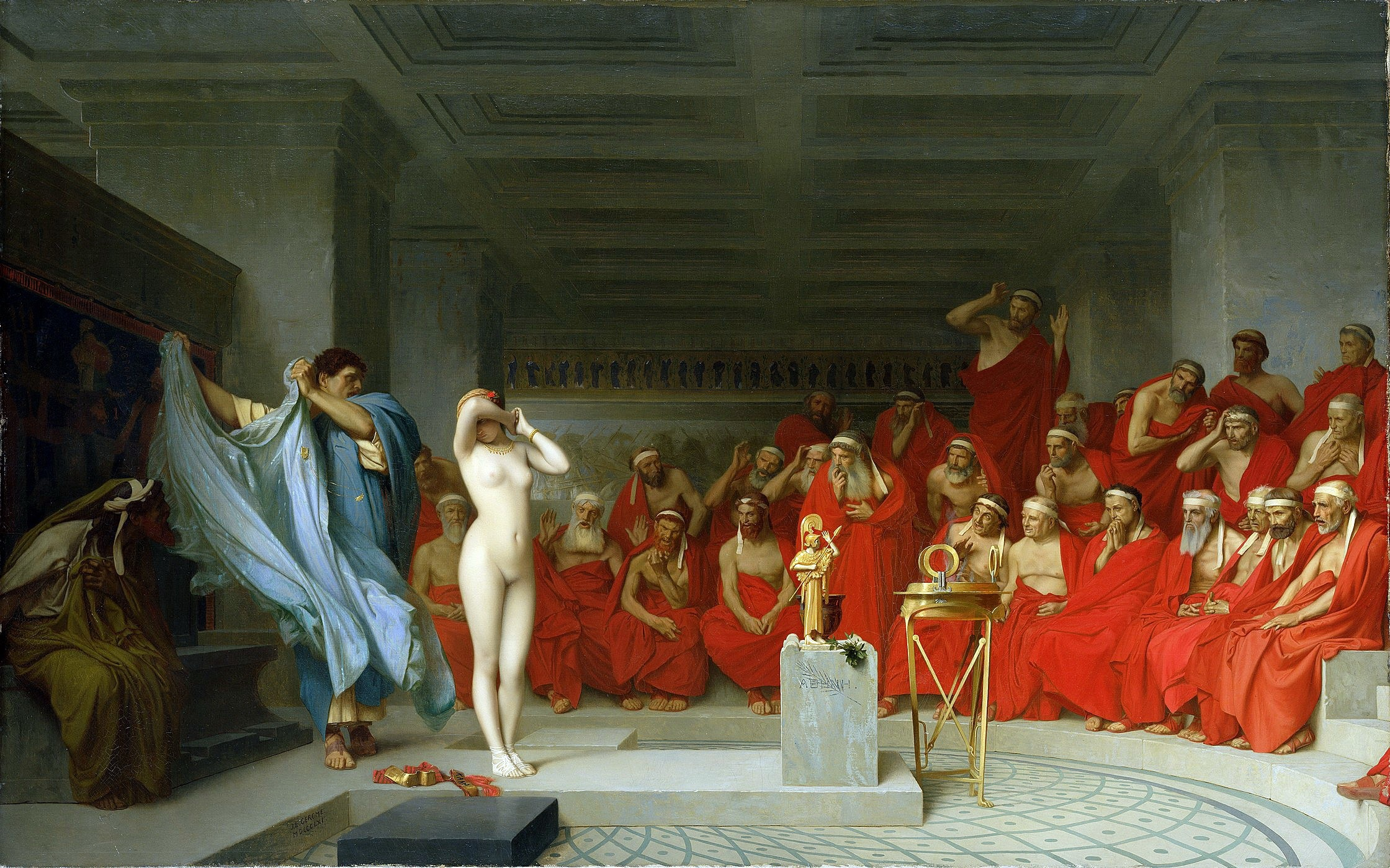 A depiction of Phryne, a famous hetaera (courtesan) of Ancient Greece, being disrobed before the Areopagus. Phryne was on trial for profaning the Eleusinian Mysteries, and is said to have been disrobed by Hypereides, who was defending her, when it appeared the verdict would be unfavourable. The sight of her nude body apparently so moved the judges that they acquitted her. Some authorities claim that this story is a later invention.